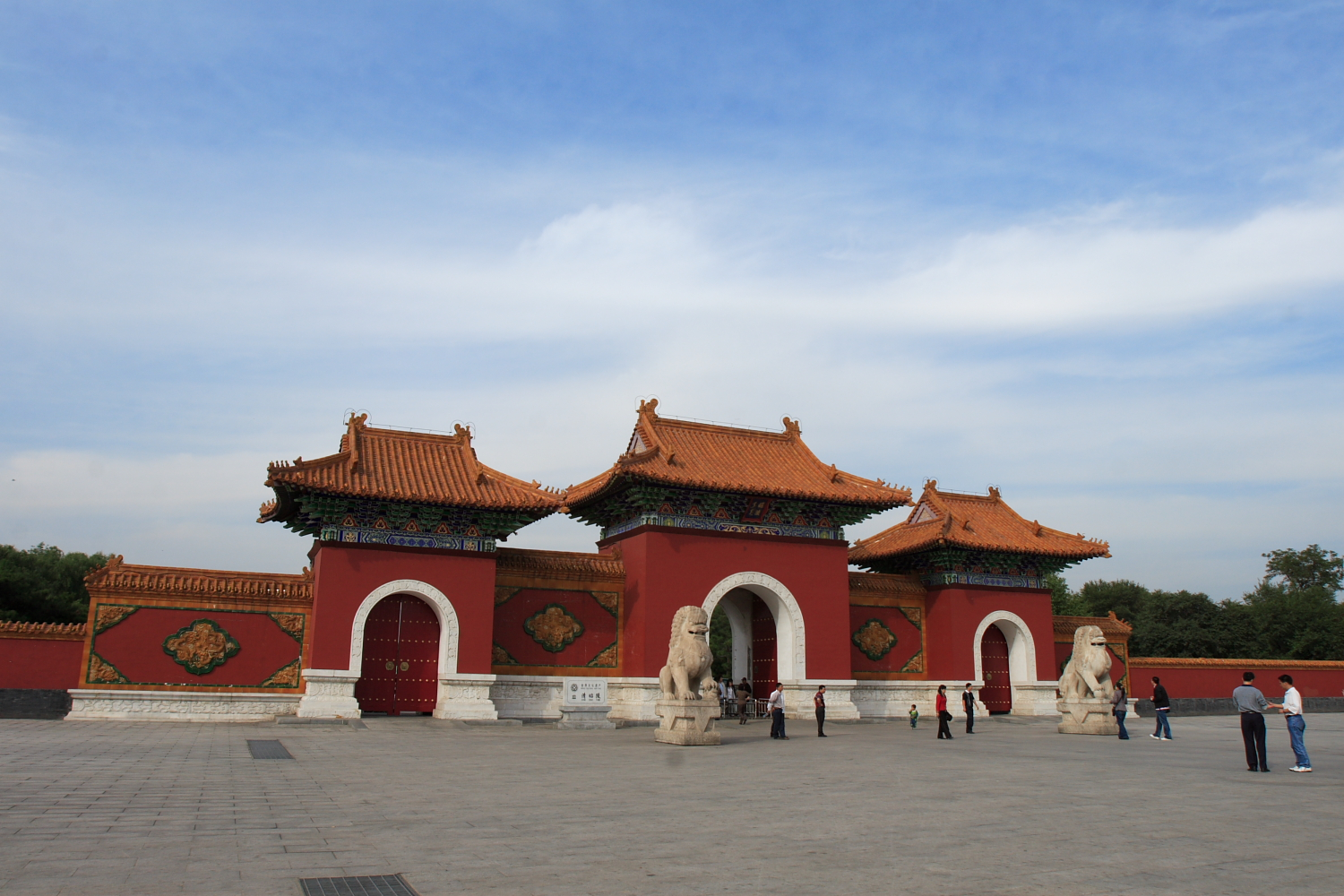 Zhaoling, Qing, Shenyang